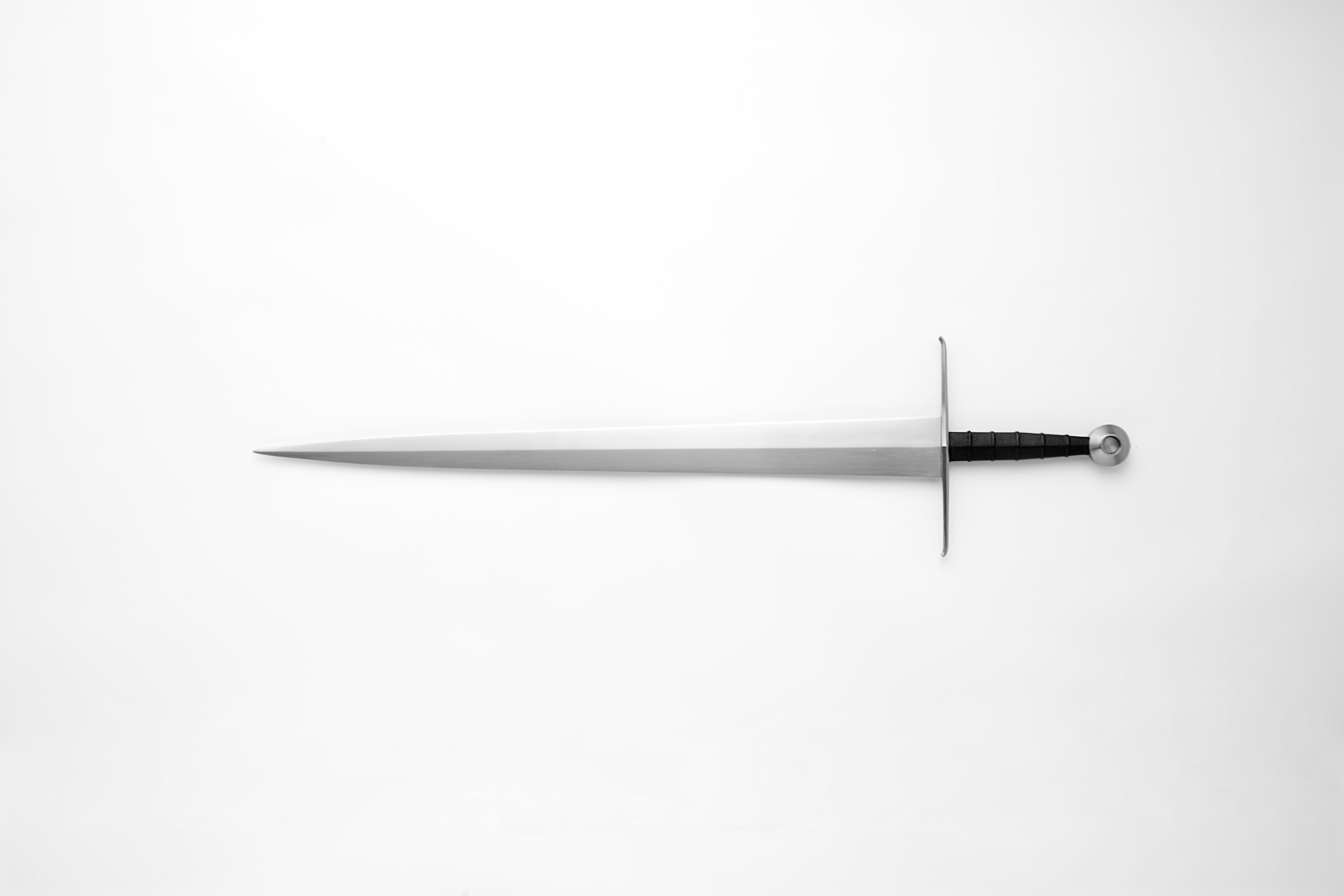 009 The Alexandria Limited Edition Medieval Sword